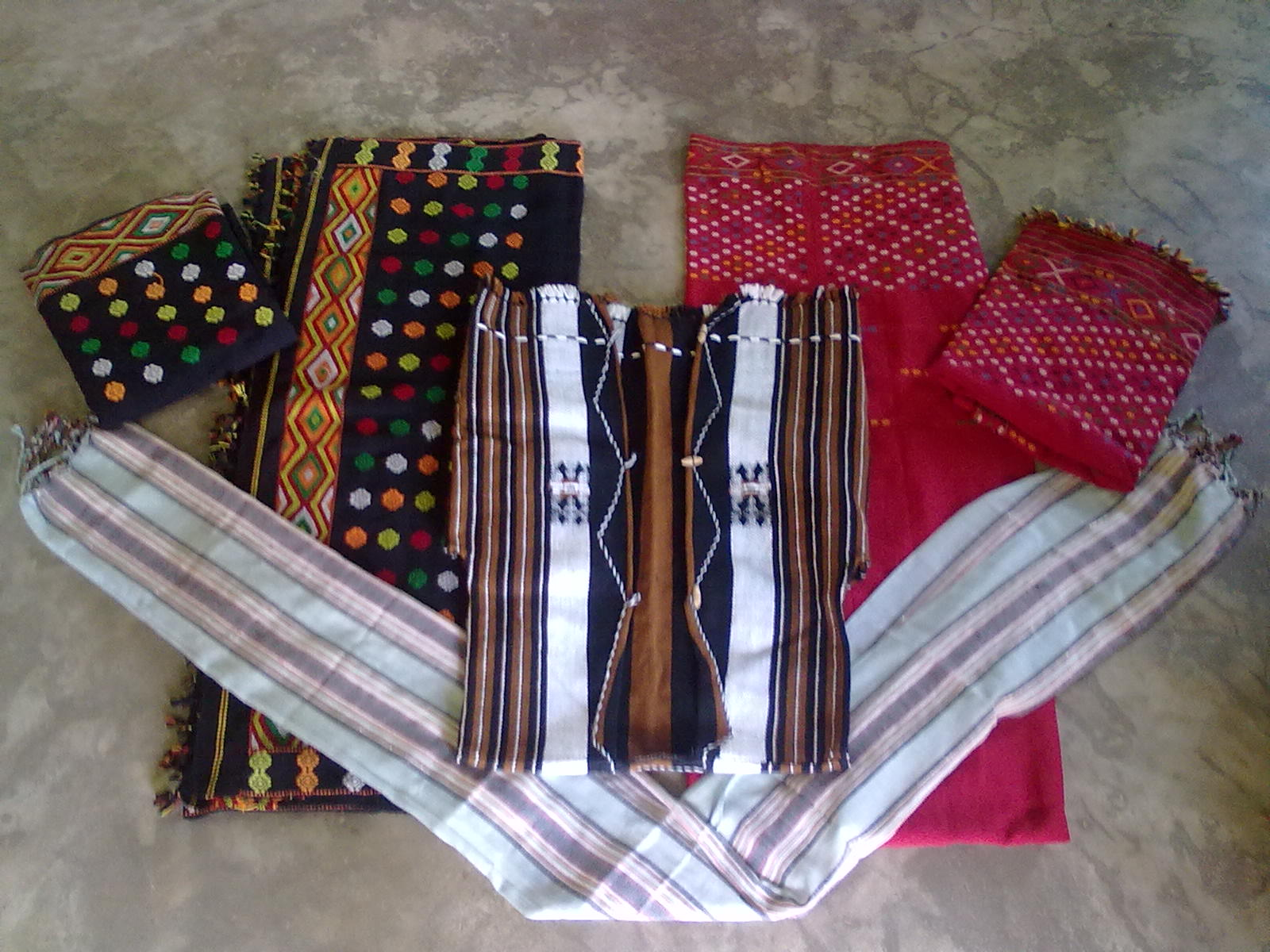 BRIGHT COLOUR(USUALLY BLACK & RED) ARE PREVALENT IN THE RICH TRADITIONAL DRESSES OF MISHING TRIBE OF ASSAM